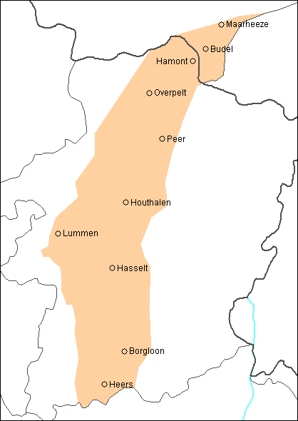 Outline of West-Limburgs (West Limburgish) dialect